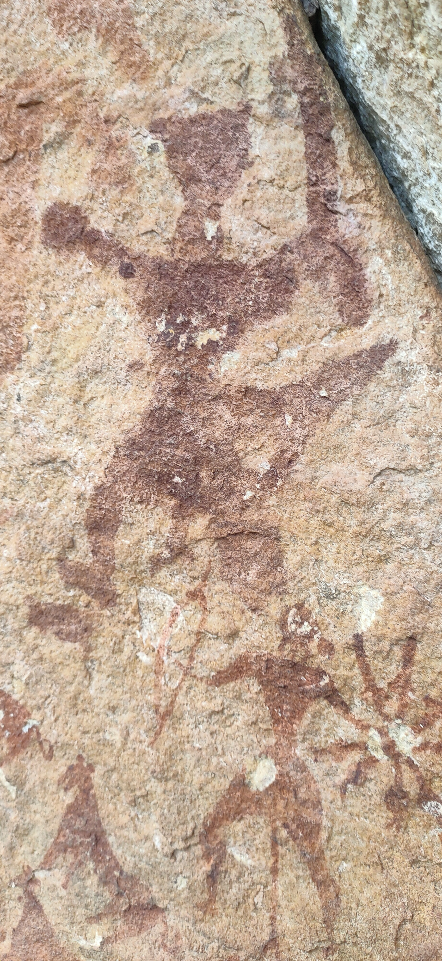 Among many paintings, this one too shows a different type of head, that can possibly be because of headgear or armour. This man is carrying a sword in his hand which hints that it is possibly from the Iron age.